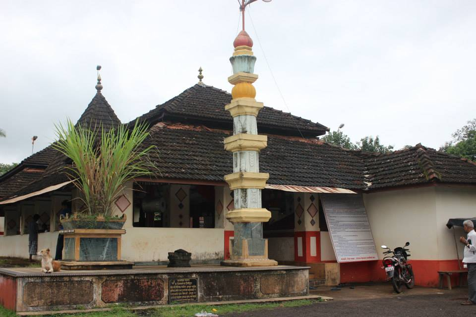 This is Gramdaivata (Village deity) of Nerur, Maharashtra.